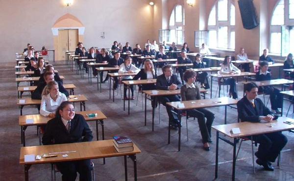 So called "New Matura" from Polish language in the 1st Liceum Ogólnokształcące in Szczecin, Poland